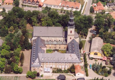 Jászberény - Temple This picture is © copyright Civertan Grafikai Stúdió (Civertan Bt.), 1997-2006.; has been verified that Commons user Civertan is controlled by Civertan Grafikai Stúdió and that it is allowed to relicense content copyrighted to this organization. This work is free and may be used by anyone for any purpose. If you wish to use this content, you do not need to request permission as long as you follow any licensing requirements mentioned on this page.